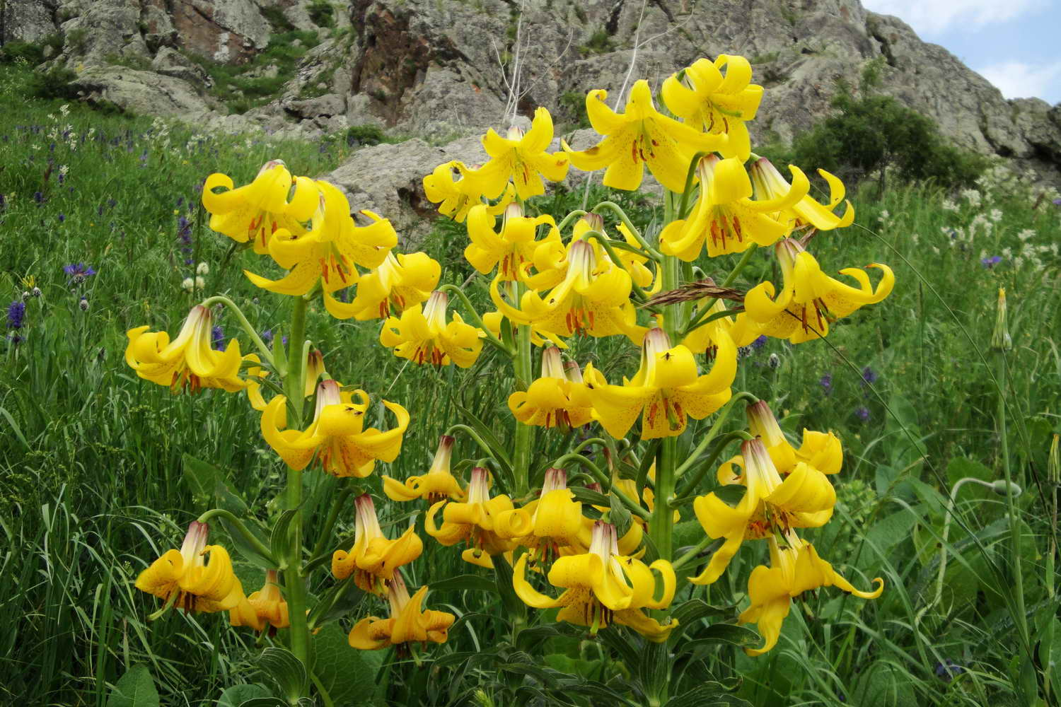 Lilium armenum at Pambak mounts